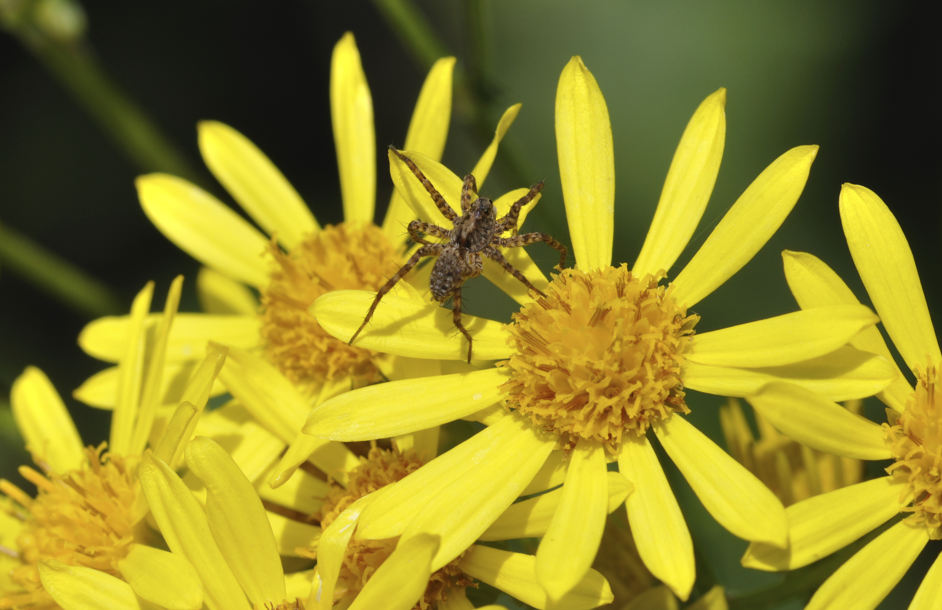 Spotted Wolf spider (Pardosa amentata) on Hoary Ragwort (Senecio erucifolius ssp. tenuifolius) near the old airstrip, Frankfurt, Germany.